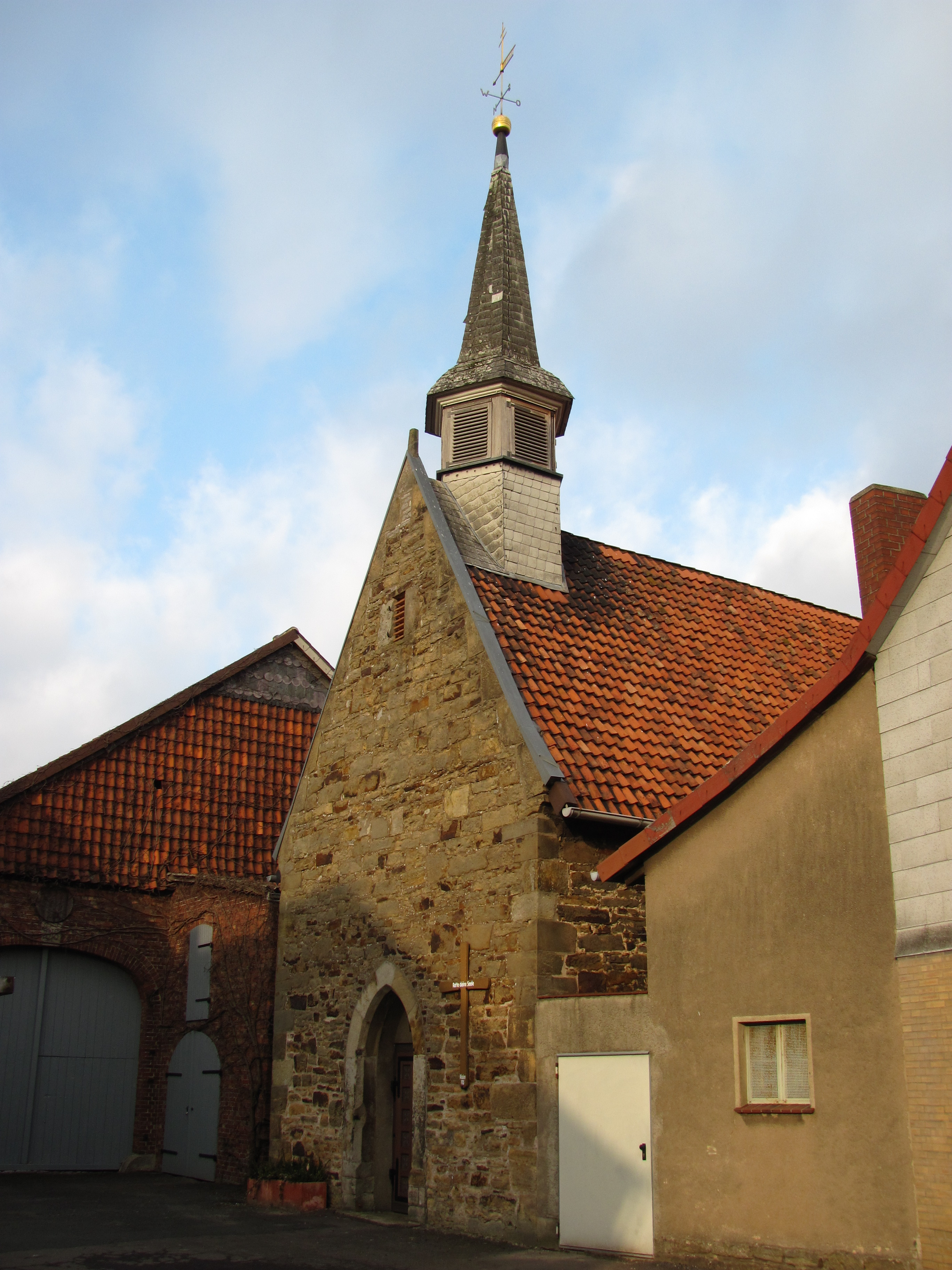 Catholic Chapel, Bad Salzdetfurth-Klein Düngen, Germany.